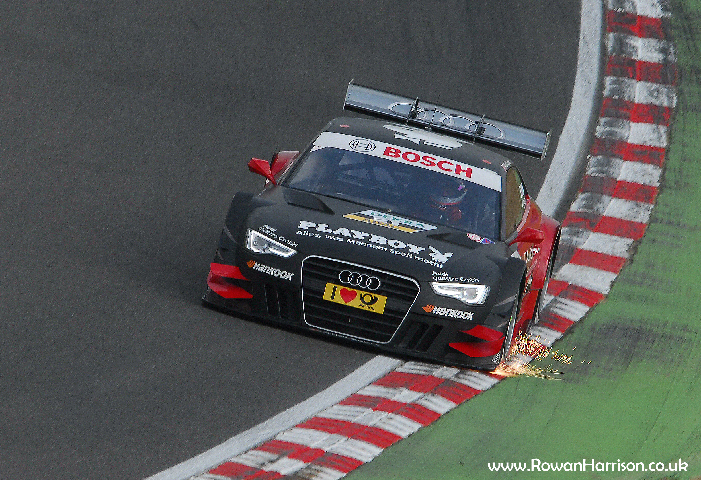 DTM Brands Hatch 2012 Edoardo Mortara sparking down paddock hill